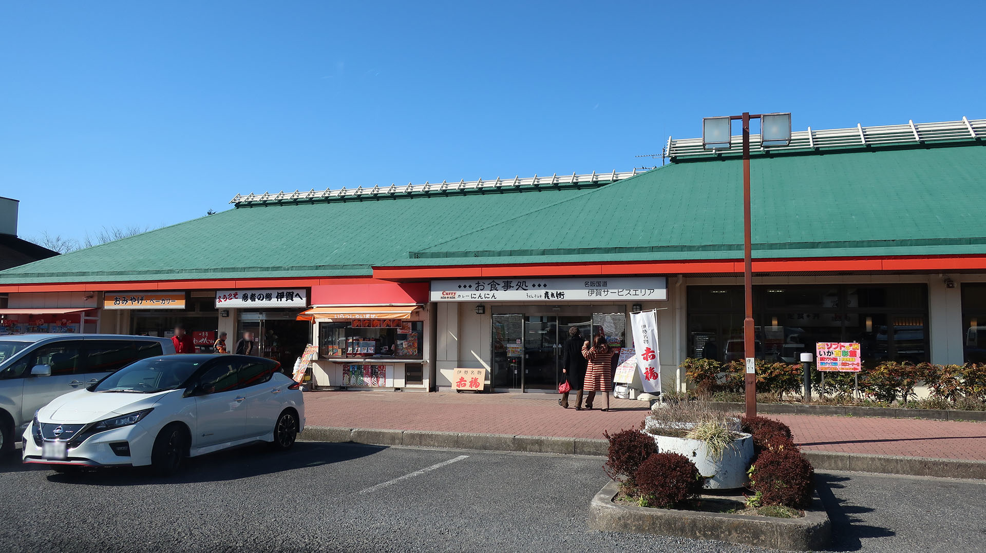 名阪国道 伊賀SA